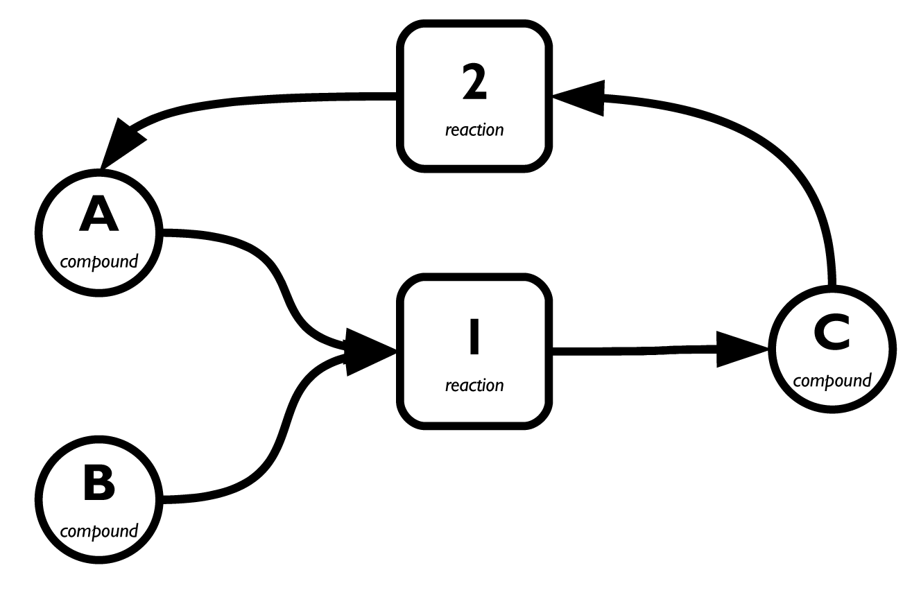 A simple reaction diagram to help describe the idea of the Stoichiometric Matrix and its application in flux-balance analysis